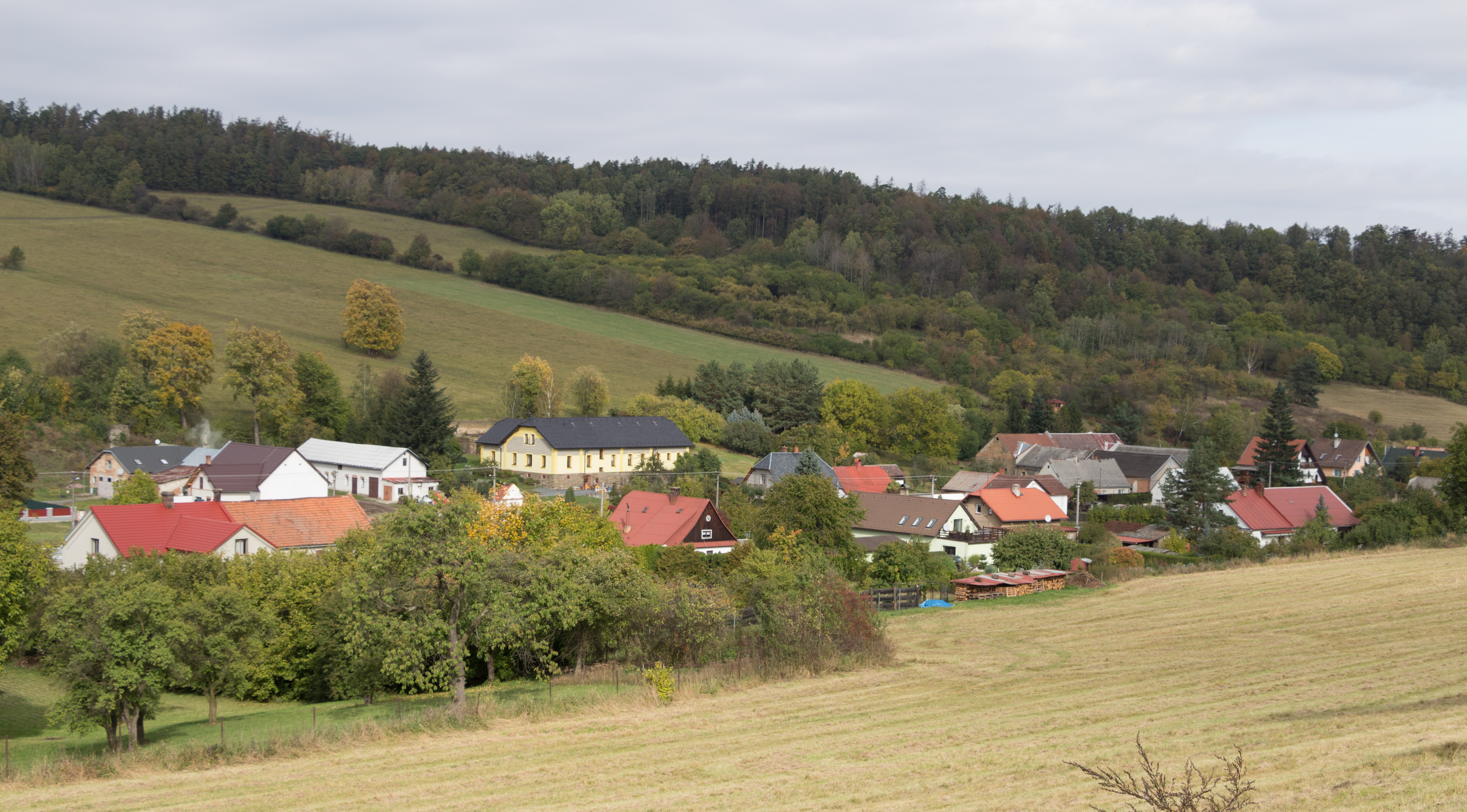 View. Lichnov, Bruntal District, Czech Republic